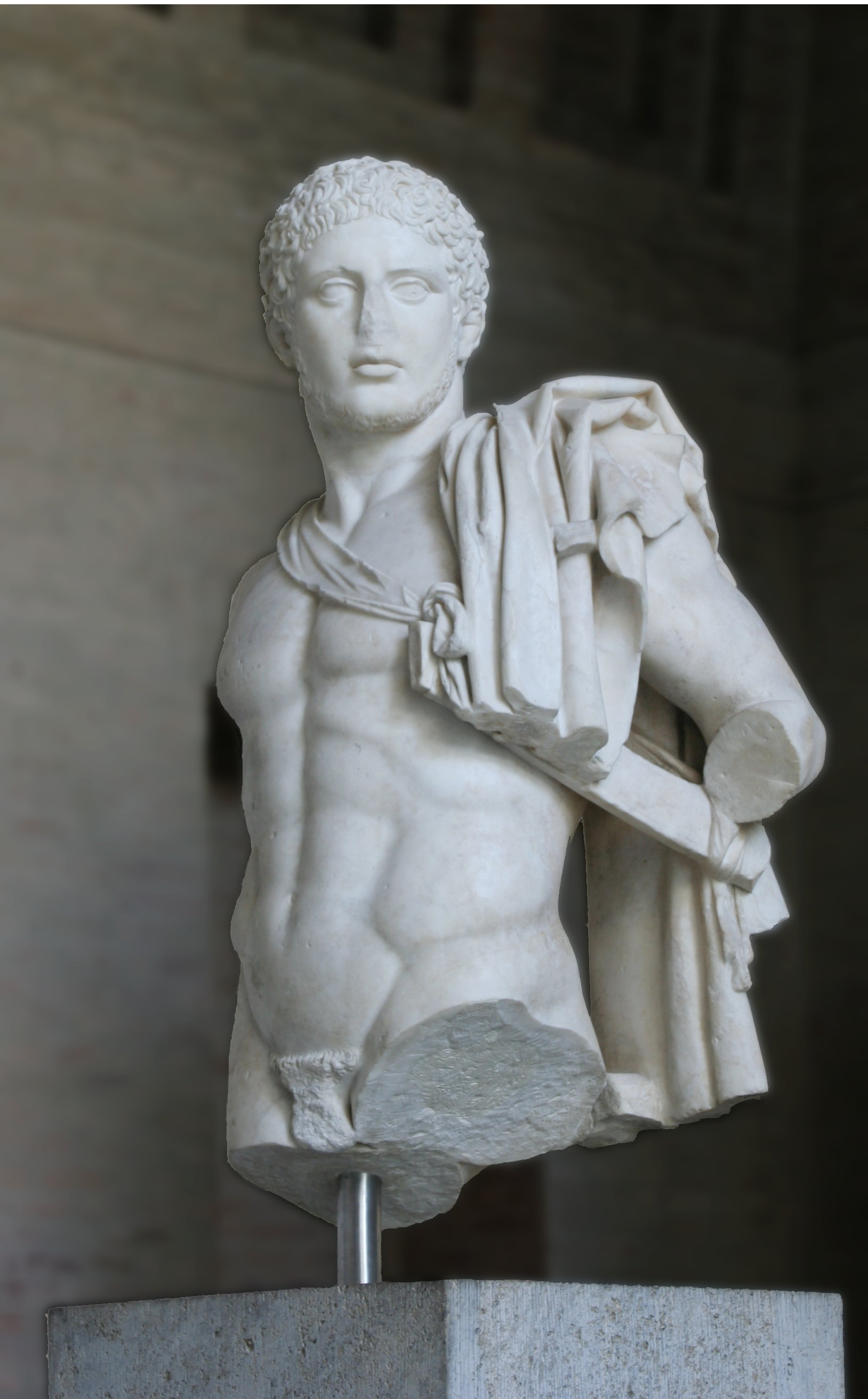 So-called “Munich Diomedes”. Roman copy after a Greek original from ca. 440–430 BC, attributed to Kresilas.